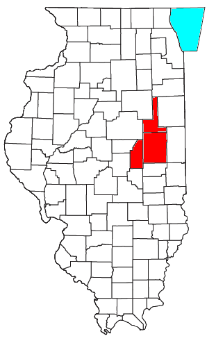 Locator map of the Champaign-Urbana Metropolitan Statistical Area in the eastern part of the U.S. state of Illinois.